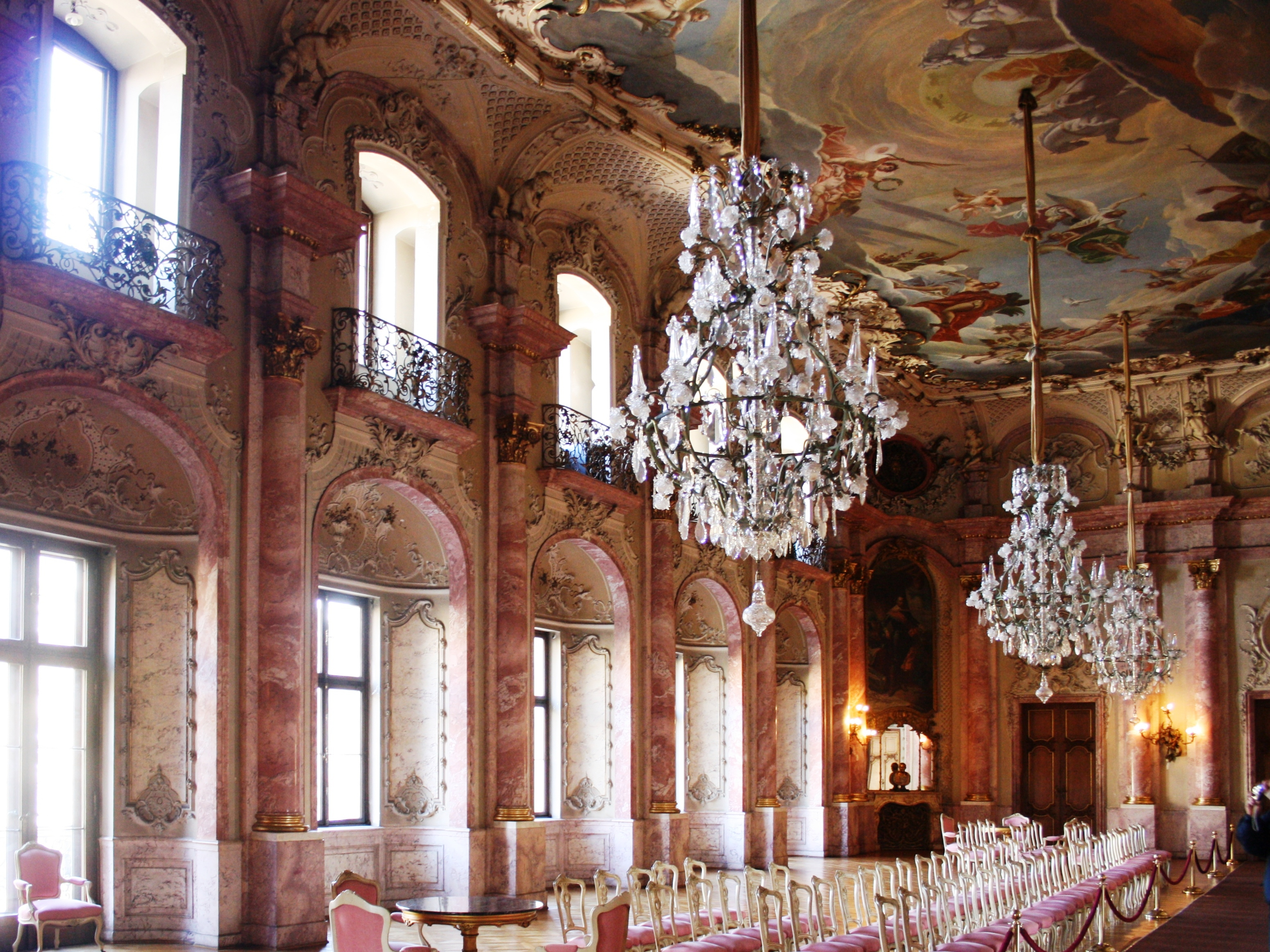 Castle in Bückeburg, Germany. Great festival hall.